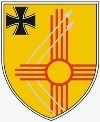 Internal coat of arms Fliegerisches Ausbildungszentrum der Luftwaffe (FlgAusbZLw) of the Bundeswehr (Armed Forces of the Federal Republic of Germany). → Remarks on naming and categorization scheme